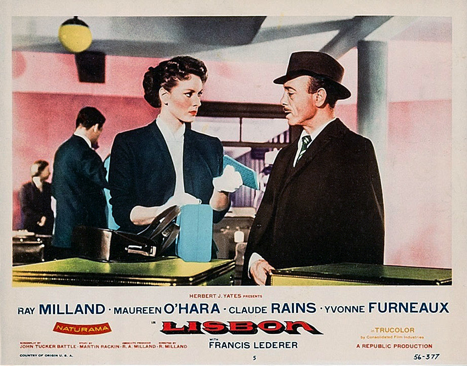 Lobby card for the American crime film Lisbon (1956).